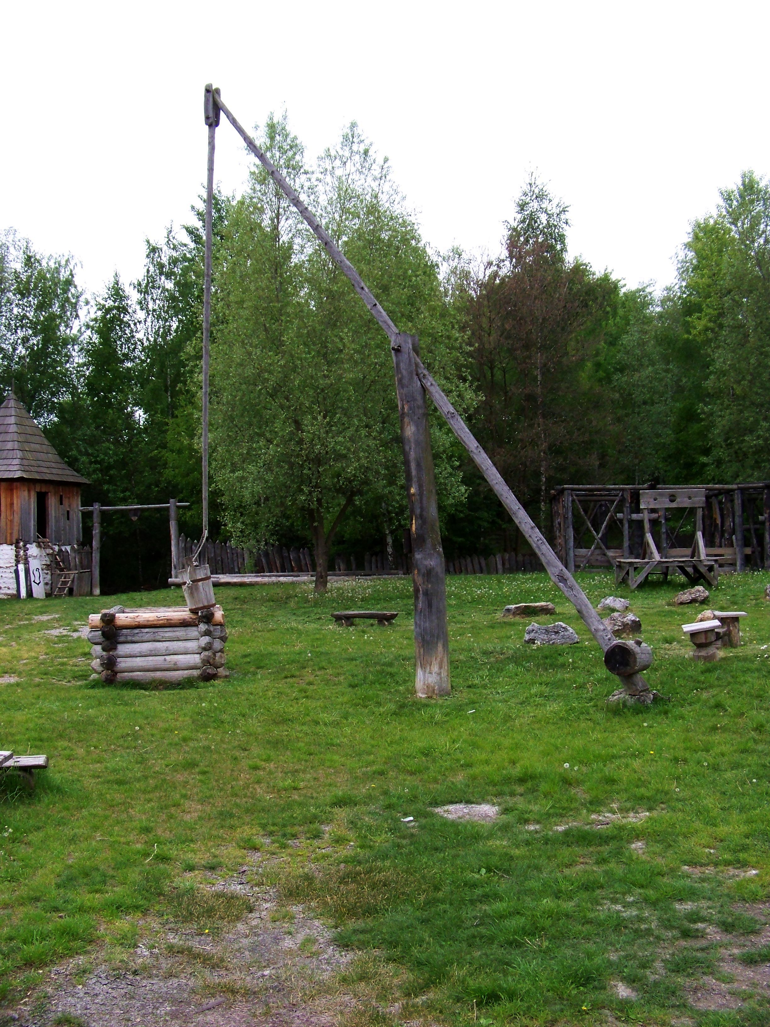 Prague-Stodůlky, the Czech Republic. Řepora village - an open air museum.